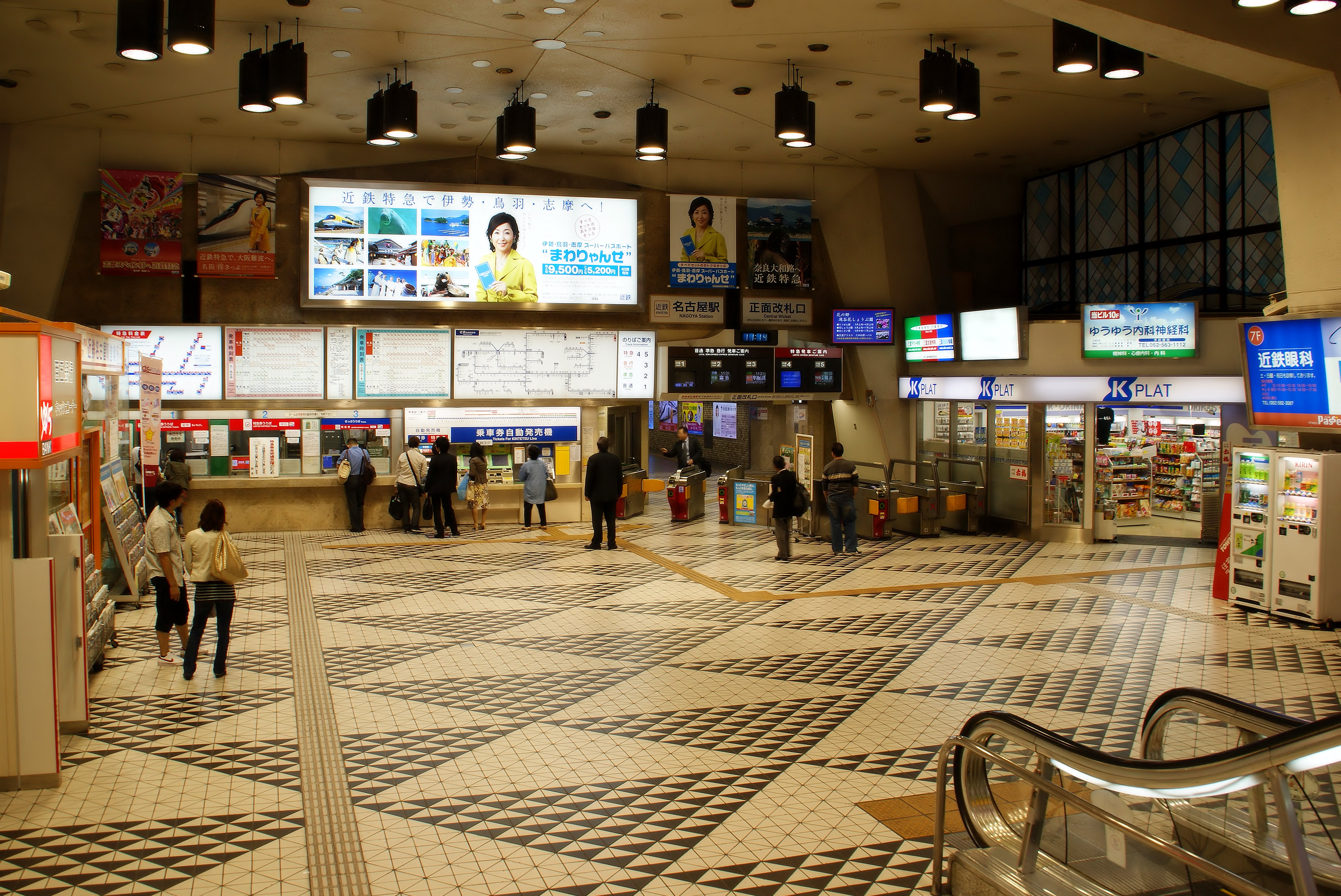 Kintetsu Corporation, Ticket Gate of Kintetsu Nagoya Station.(Nakamura Ward, Nagoya City, Aichi Prefecture, Japan)